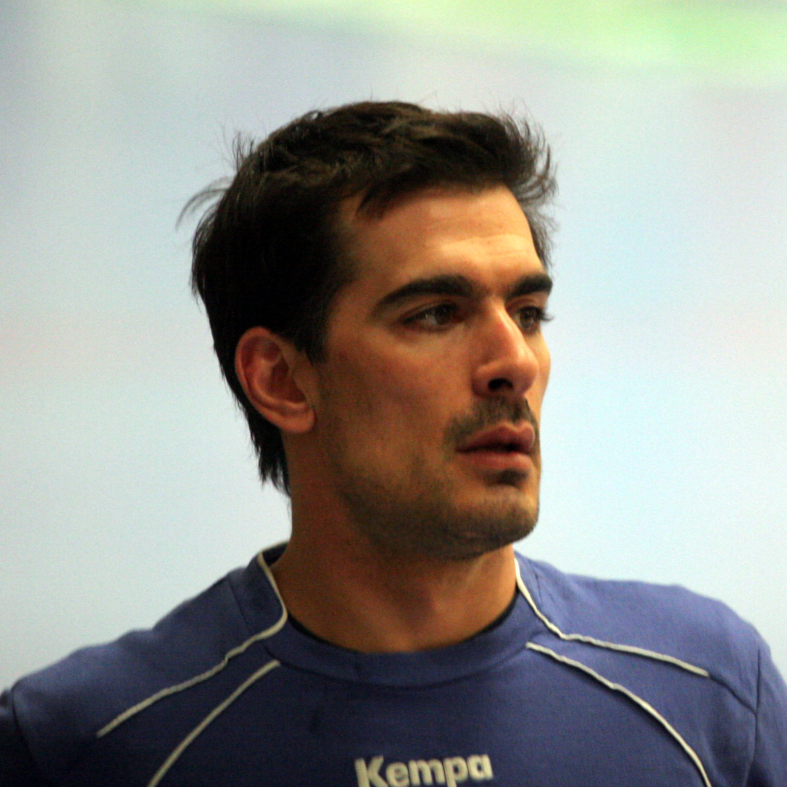 Dalibor Doder, Swedisch handball player from BM Aragón, on April 26th, 2009 in Gummersbach (Eugen-Haas-Halle), prior the IHF Cup game between VfL Gummersbach and BM Aragón.